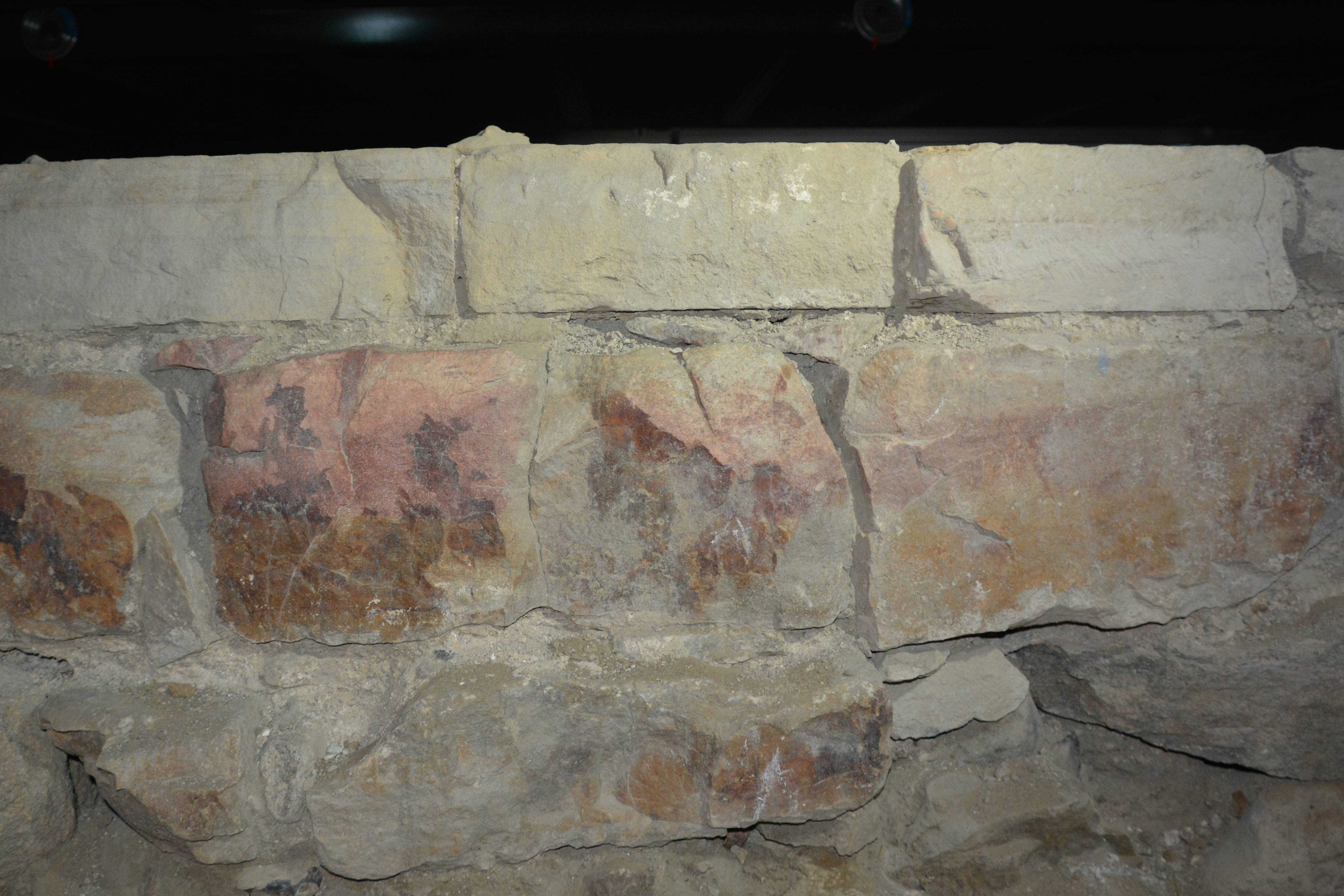 Drottens kyrkoruin. Kvaderstenar i vägg.